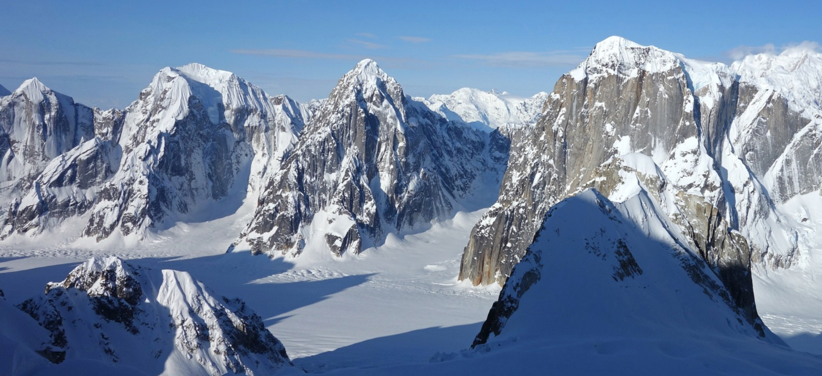 Ruth Gorge in Denali Park, Alaska